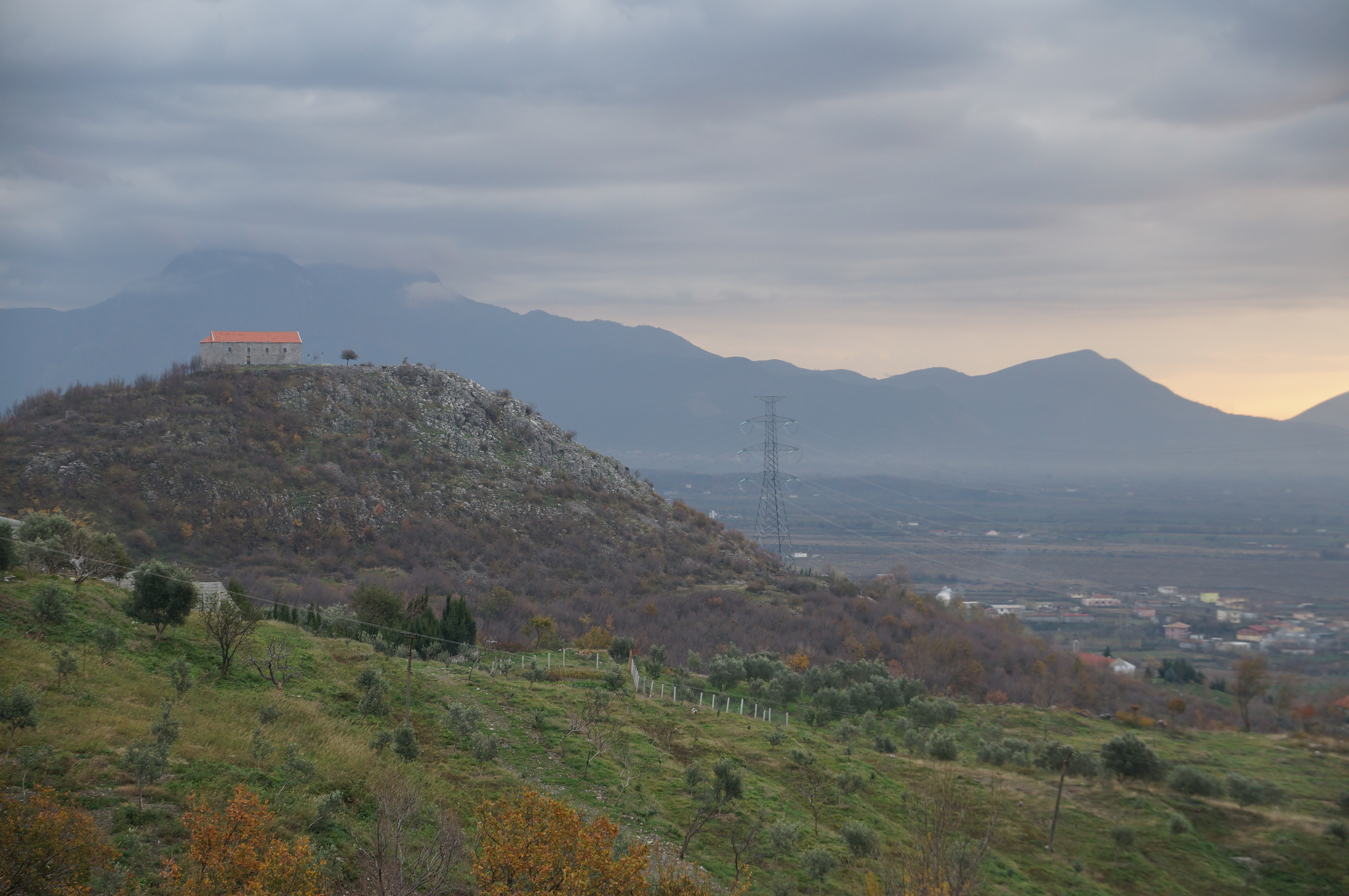 In Nënshat, a village of Zadrima in Northern Albania – hill of Sapa to the left